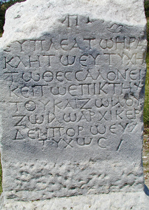 Ex-voto in Aliki sanctuary from a trademan of Thessaloniki.